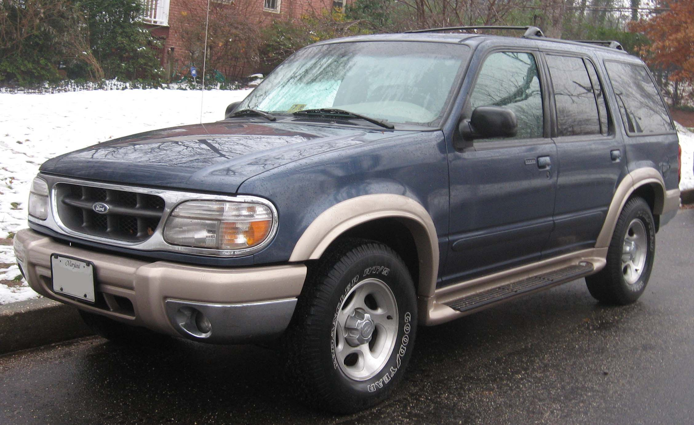 1999-2001 Ford Explorer photographed in Kensington, Maryland, USA.